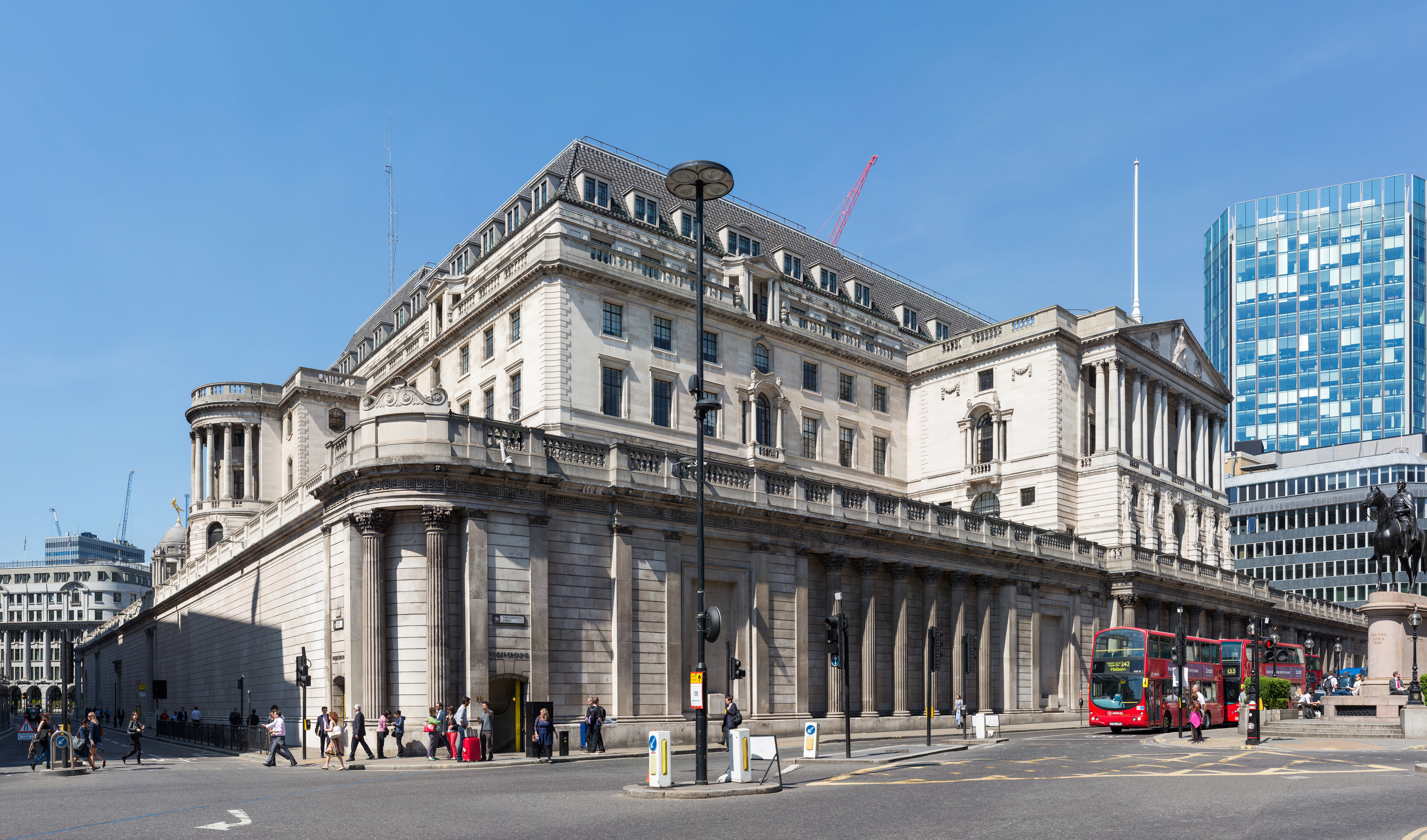 The Bank of England building viewed Lombard Street.